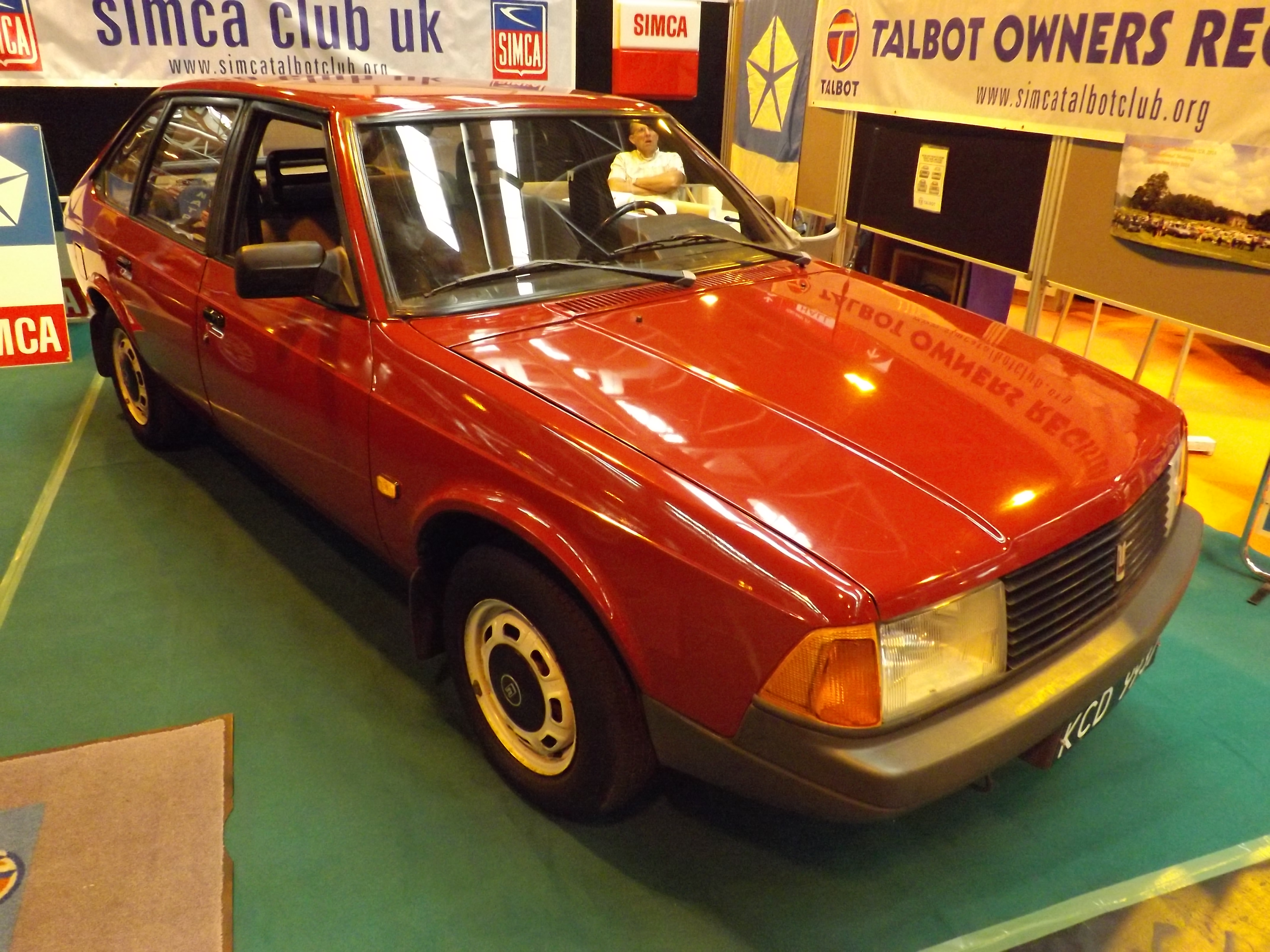 Interestingly parked next to a Chrysler/Talbot Alpine as a contrast. Shares no body panels. Has north-south engine and front wheel drive (or all wheel drive in some modifications).